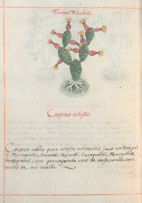 Libellus de medicinalibus Indorum herbis f. 49v